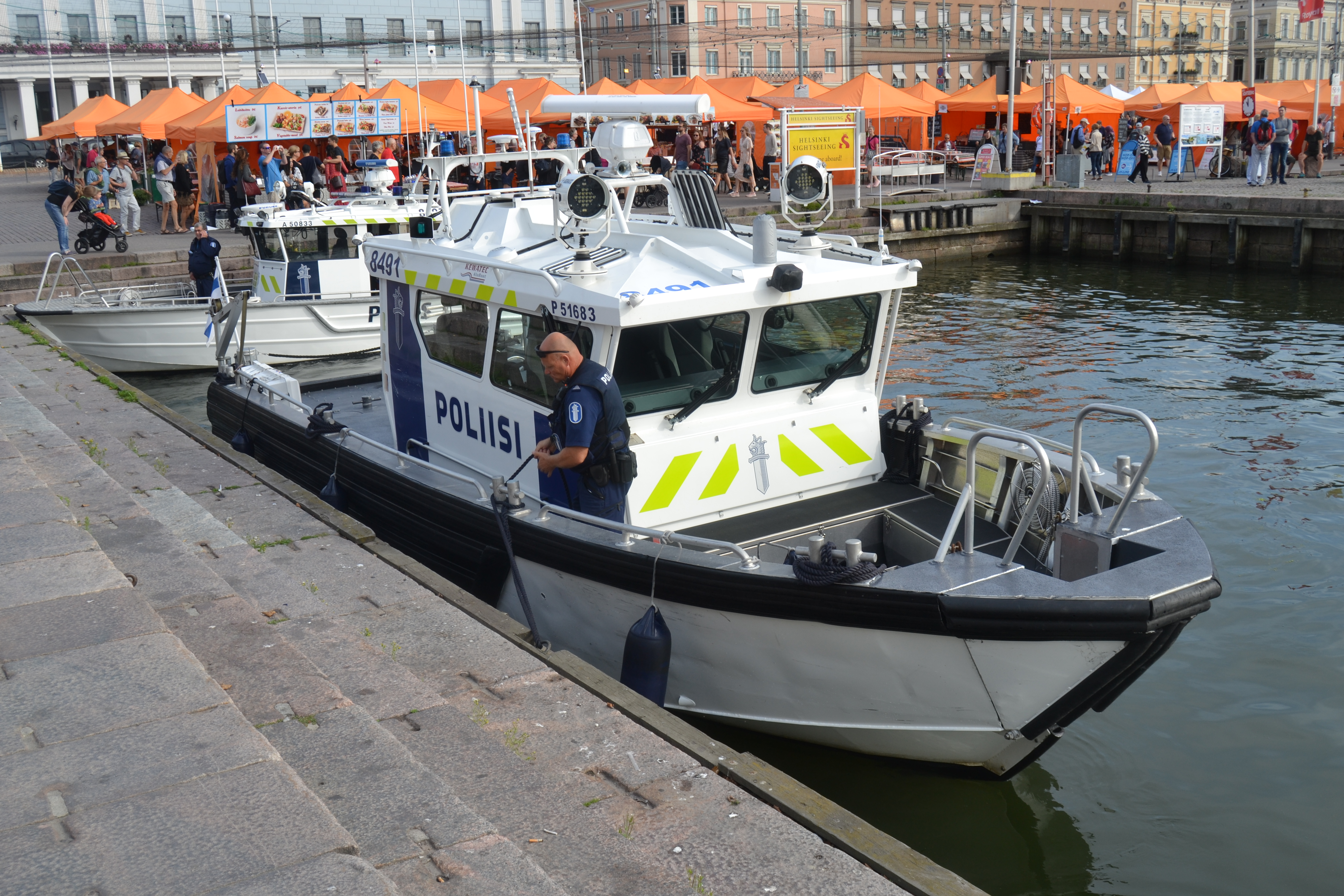 Police boat Ville 1 at Cholera Basin in Helsinki